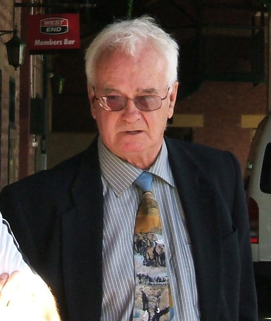 Ashley Mallett at a training session at the Adelaide Oval